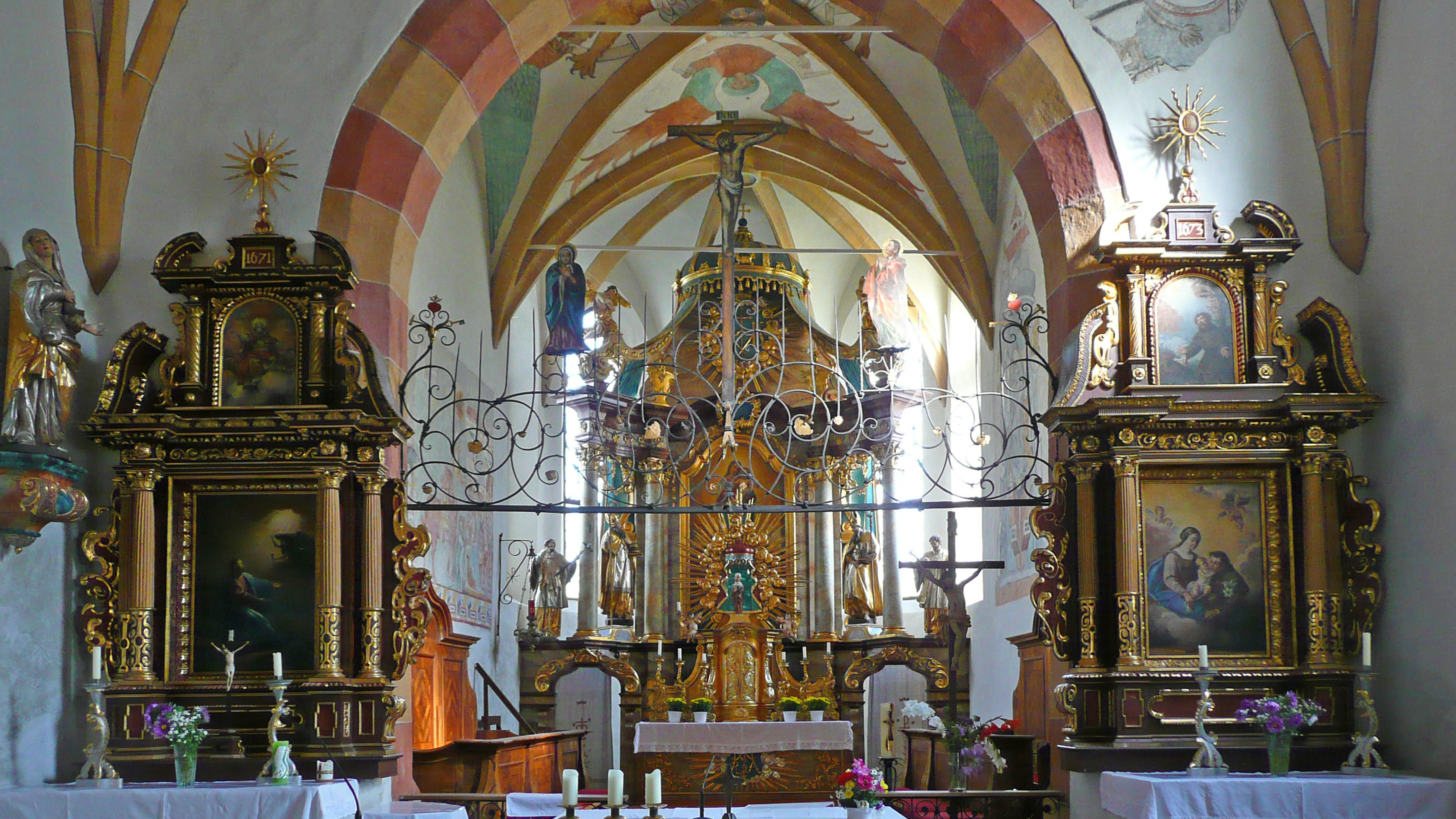 Parish church Malta (Austria)